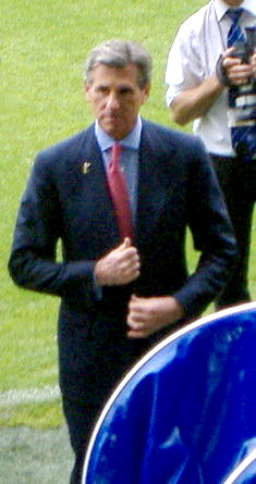 Berylson pitch side at The Den, at the 125 year anniversary of Millwall Football Club against Burnley, Oct 2010